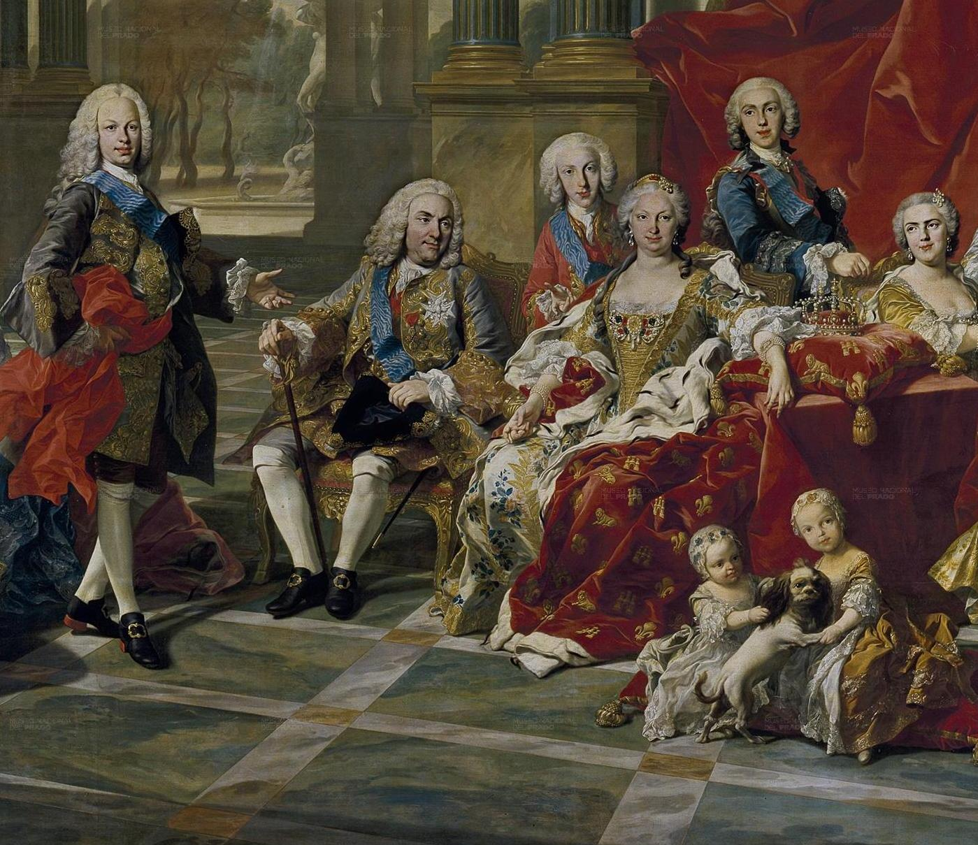 Detail (Fernando Prince of Asturias, King Felipe, Infante Luis Antonio, Queen Elisabeth, Infante Felipe and Princess Louise Élisabeth)